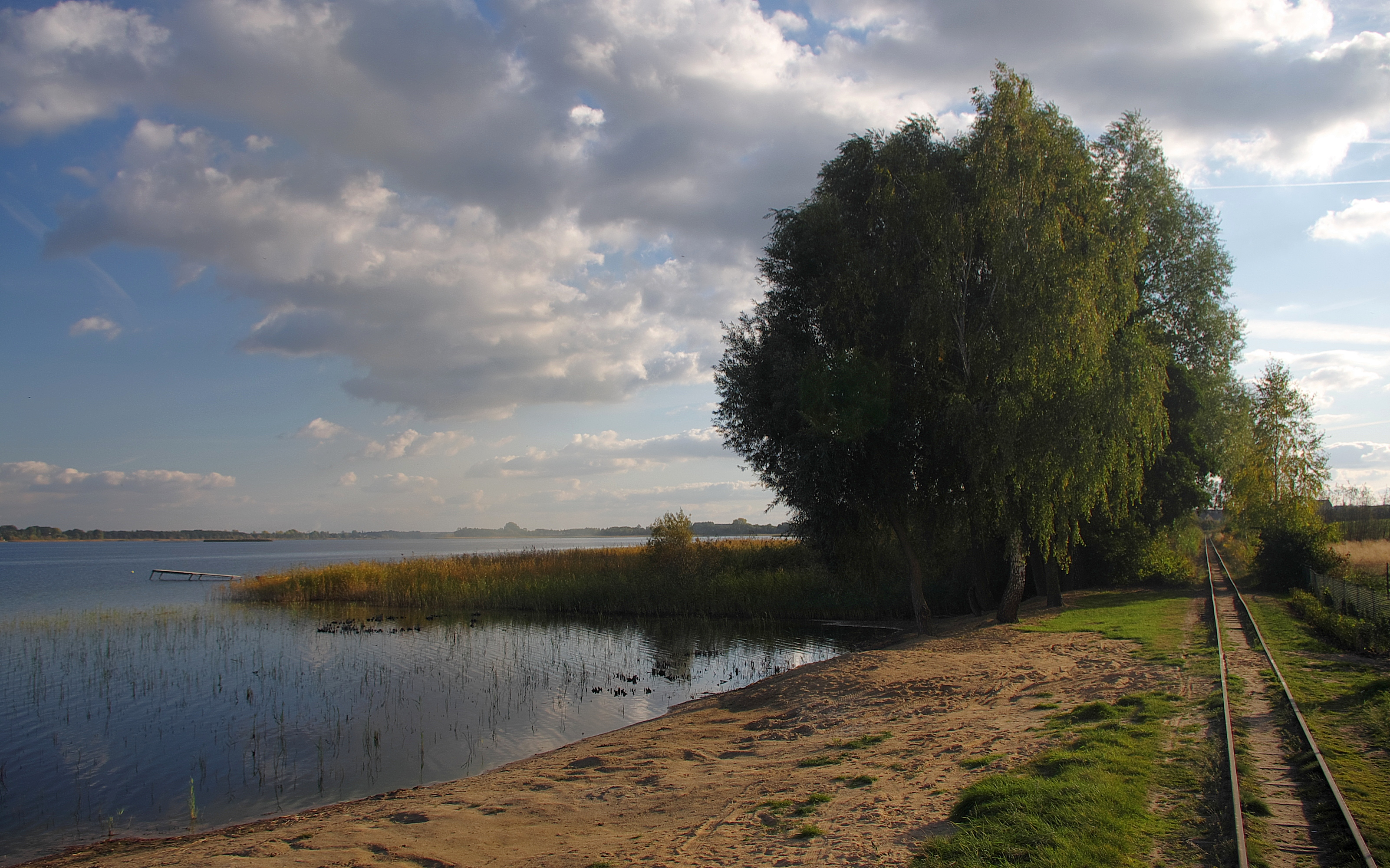 A section of the Gniezno Narrow Gauge Railway line near Lake Powidz